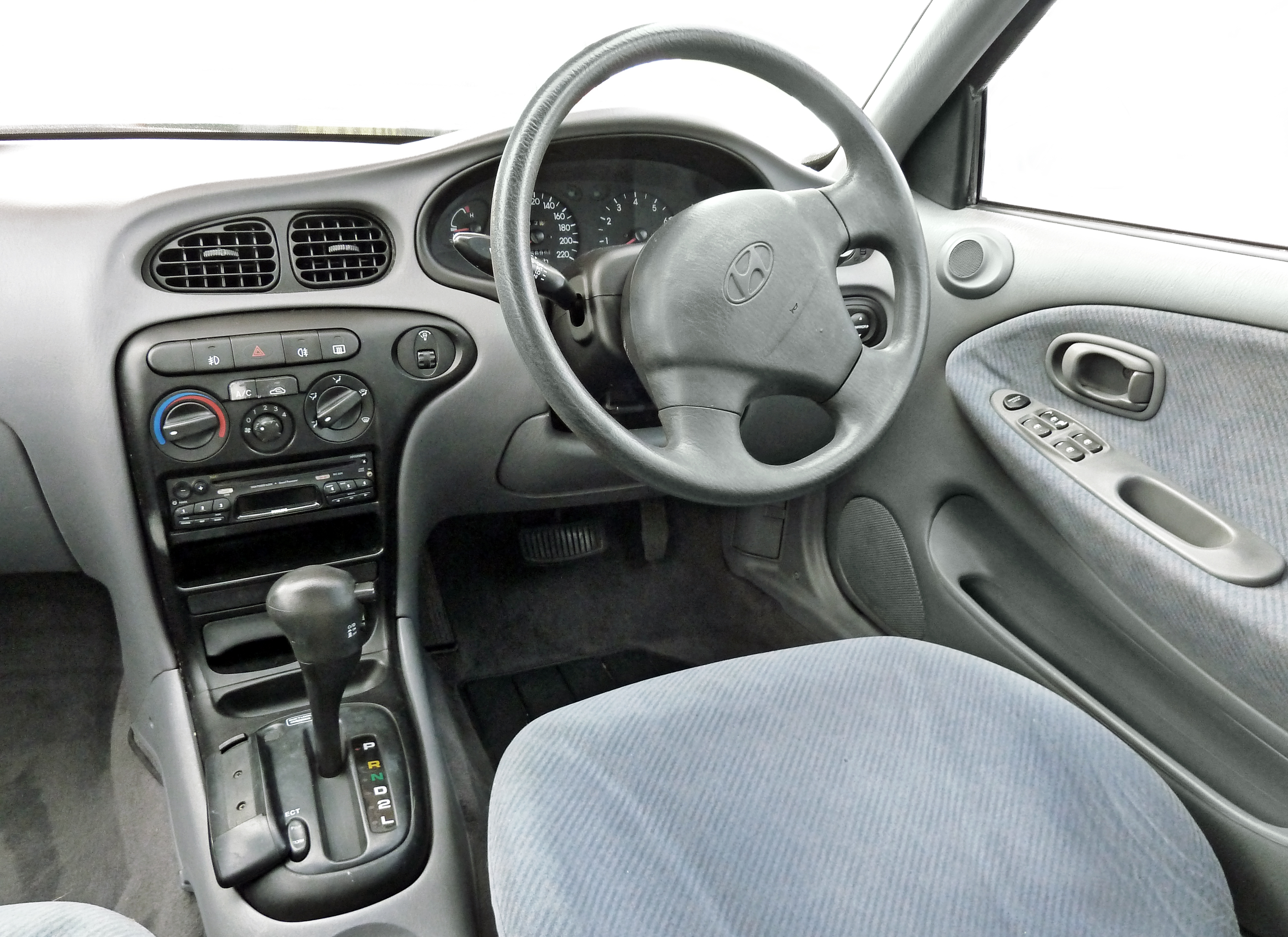 2000 Hyundai Lantra (J3) GLS sedan. Photographed at Tynan Motors, Kirrawee, New South Wales, Australia.